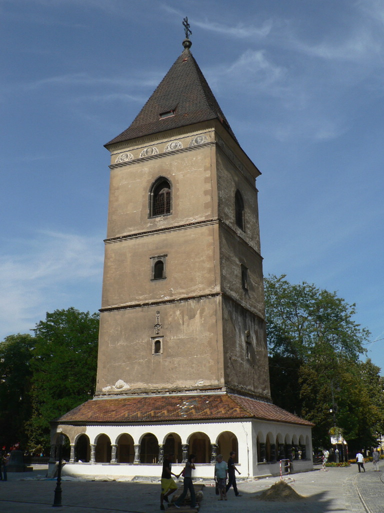 Urban Tower in Kosice